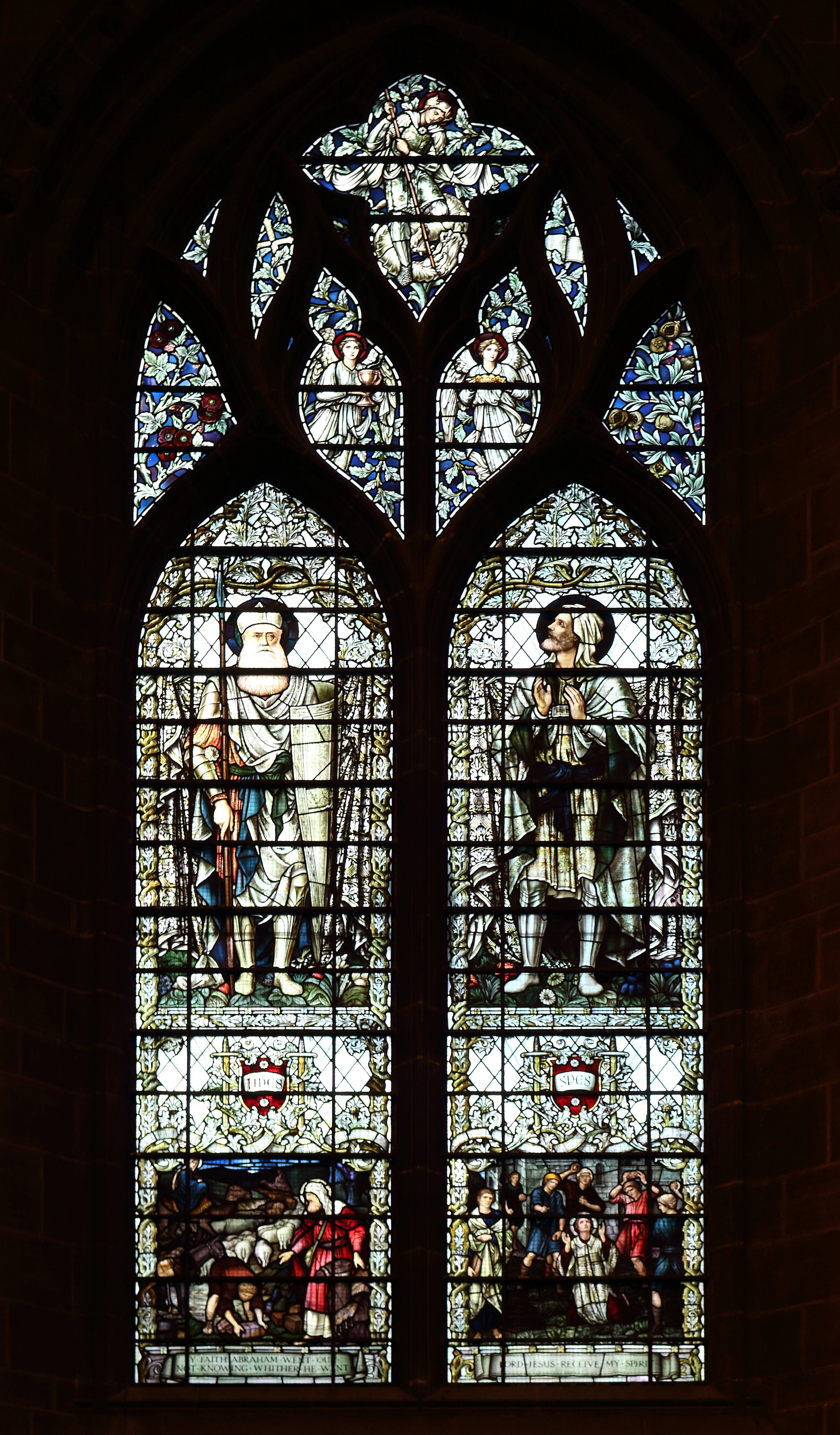 Window depicting (top left) ? (top right) ? (bottom left) Abraham seeking his inheritance in Hebrews 11:8 (bottom right) the stoning of St Stephen in Acts 7:59.